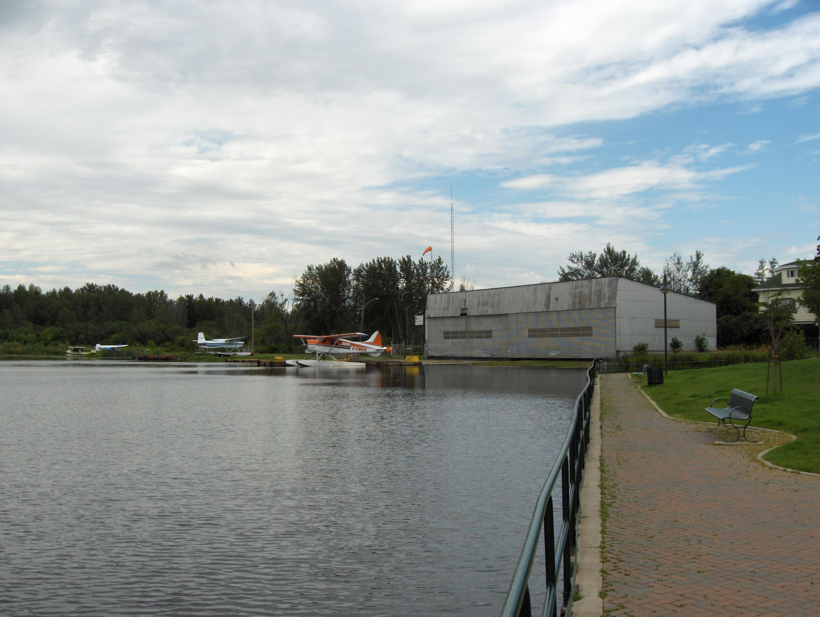 Author - John Monaghan Source - HP Photosmart R7171